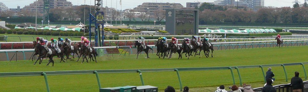 Nakayama-Racecourse06